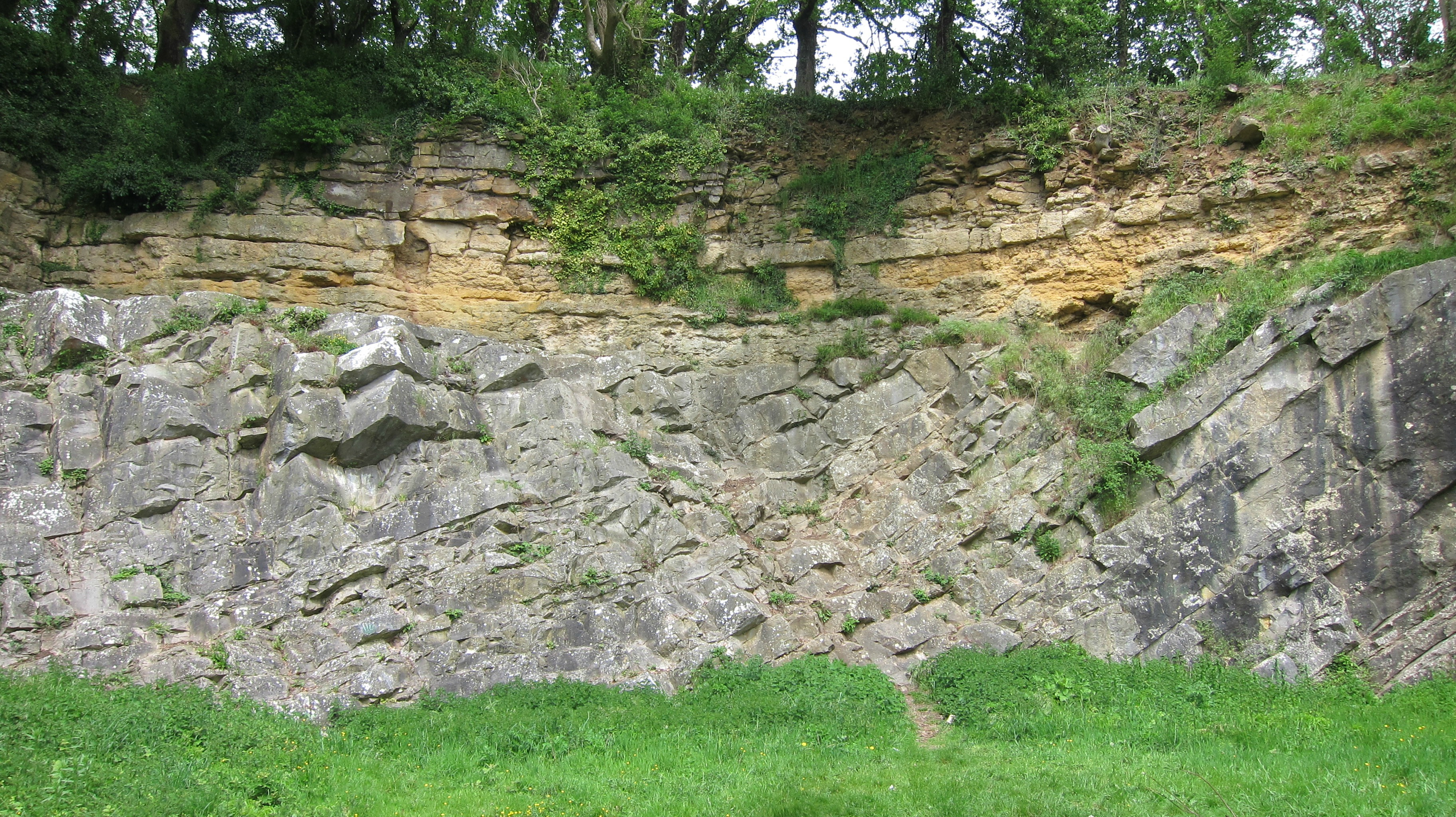 The De La Beche unconformity at Vallis Vale in Somerset, England. Horizontal layers of yellow oolitic limestone lie on top of tilted layers of grey Carboniferous limestone.